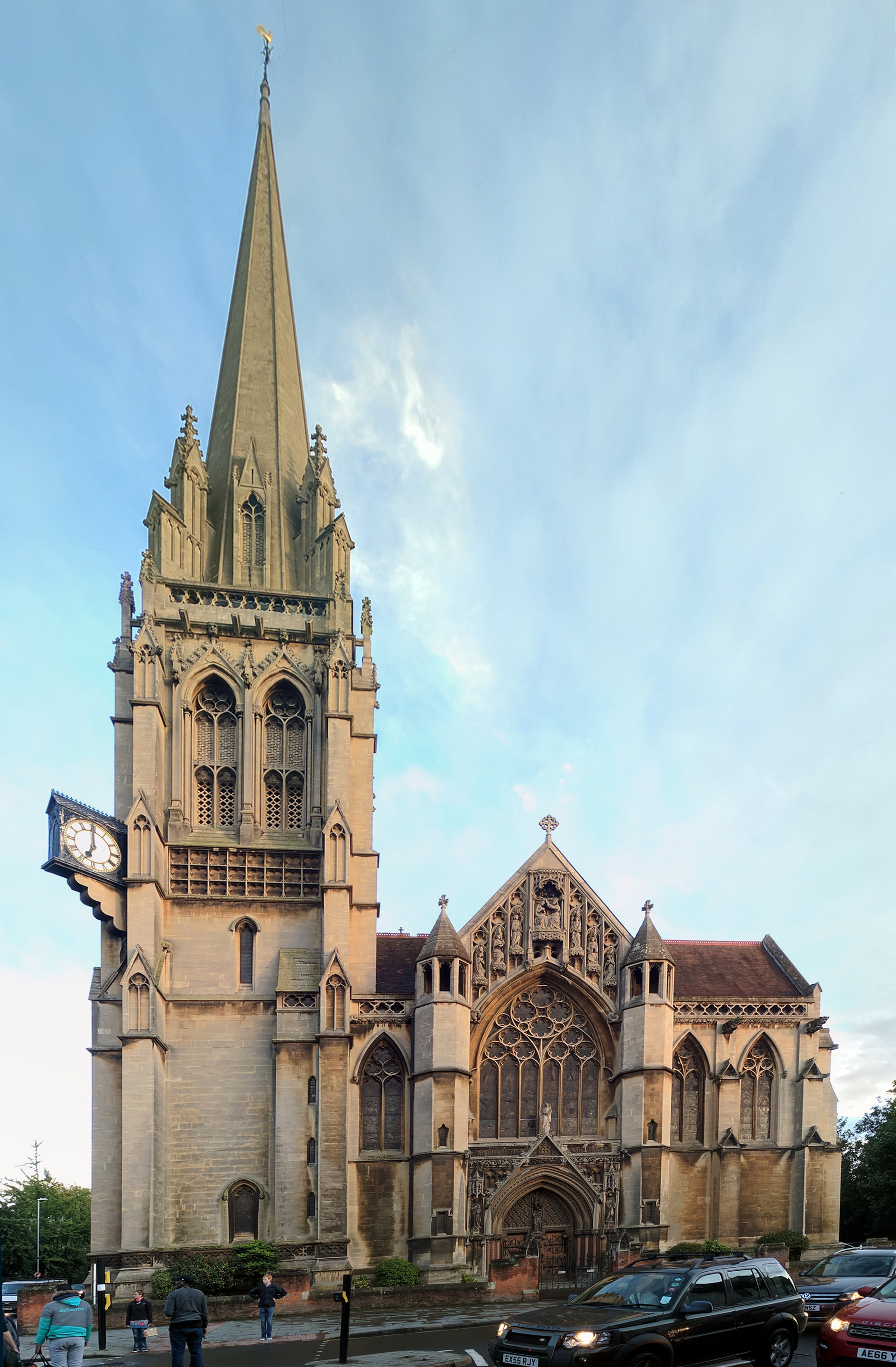 The Church of Our Lady and the English Martyrs, Cambridge's only Catholic church, viewed from the door of the Oak Bistro across the street to the north, using a 6-shot pano and manual approximate perspective correction.